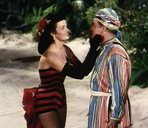 Cropped screenshot of Jane Russell and Bob Hope from the film Road to Bali.